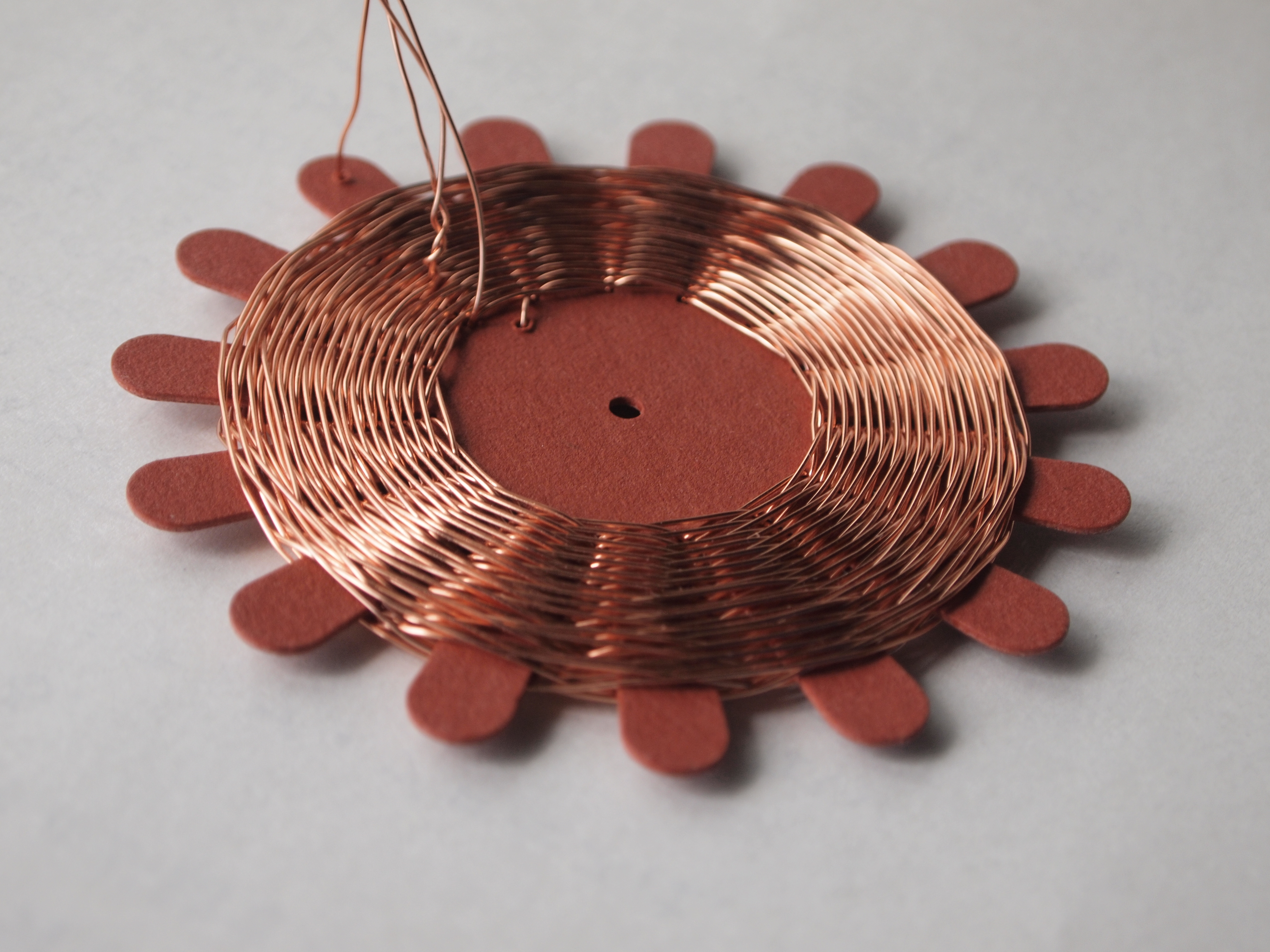 A spiderweb coil, a type of air core inductor used as tuning coils in radio receivers. At radio frequencies, energy losses in ordinary coils increase due to proximity effect; the magnetic field of adjacent parallel turns of wire causes the current to concentrate in a thin strip next to the adjacent wires. So only a small portion of the wire's cross section carries the current, increasing resistive losses. In addition the adjacent turns of wire act like the plates of a capacitor, giving the coil significant parasitic capacitance. The spiderweb construction method reduces these effects by winding the wire in a flat spiral, so a given wire turn only has a few adjacent wires. In addition the wire alternates on either side of the form, providing more separation between adjacent turns. The number of tabs on the form is odd, so successive turns end up on opposite sides of the form.